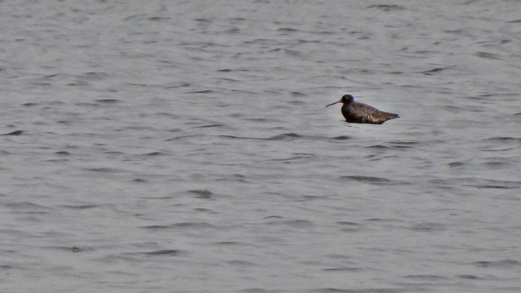 Spotted Redshank in breeding plumage